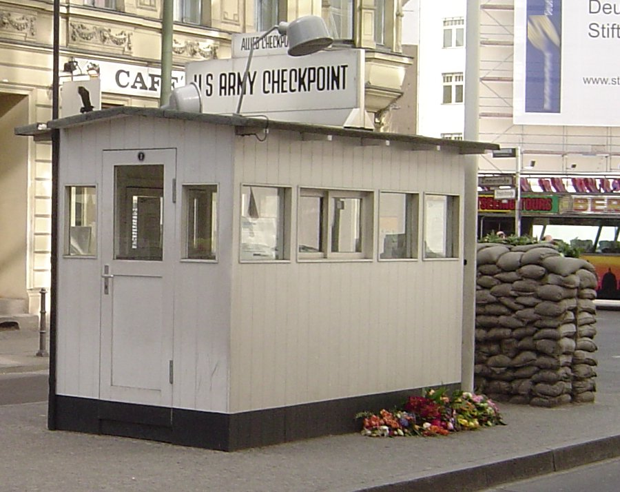 Berlin, Checkpoint Charlie Memorial Site, 2005